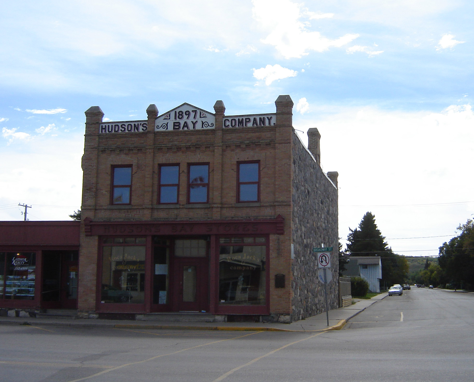 1897 Hudson's Bay Company Store in Fort Qu'Appelle Saskatchewan